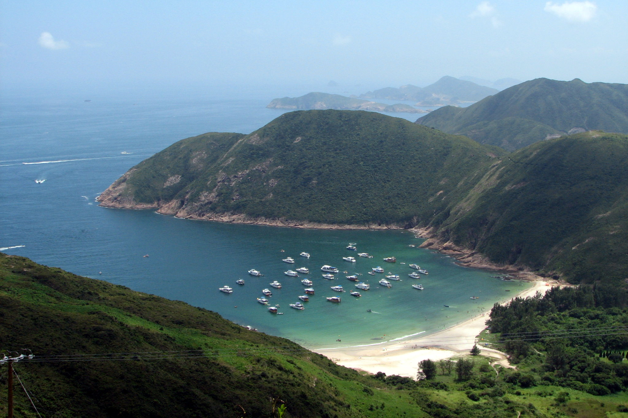 Long Ke Bay